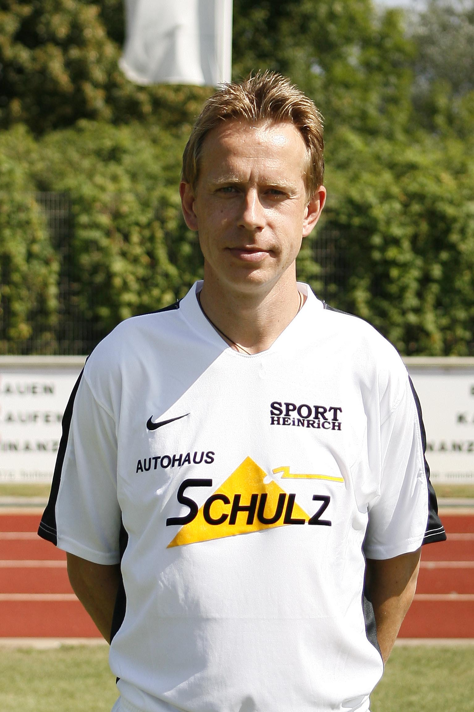 Former German soccer player Jörg Heinrich